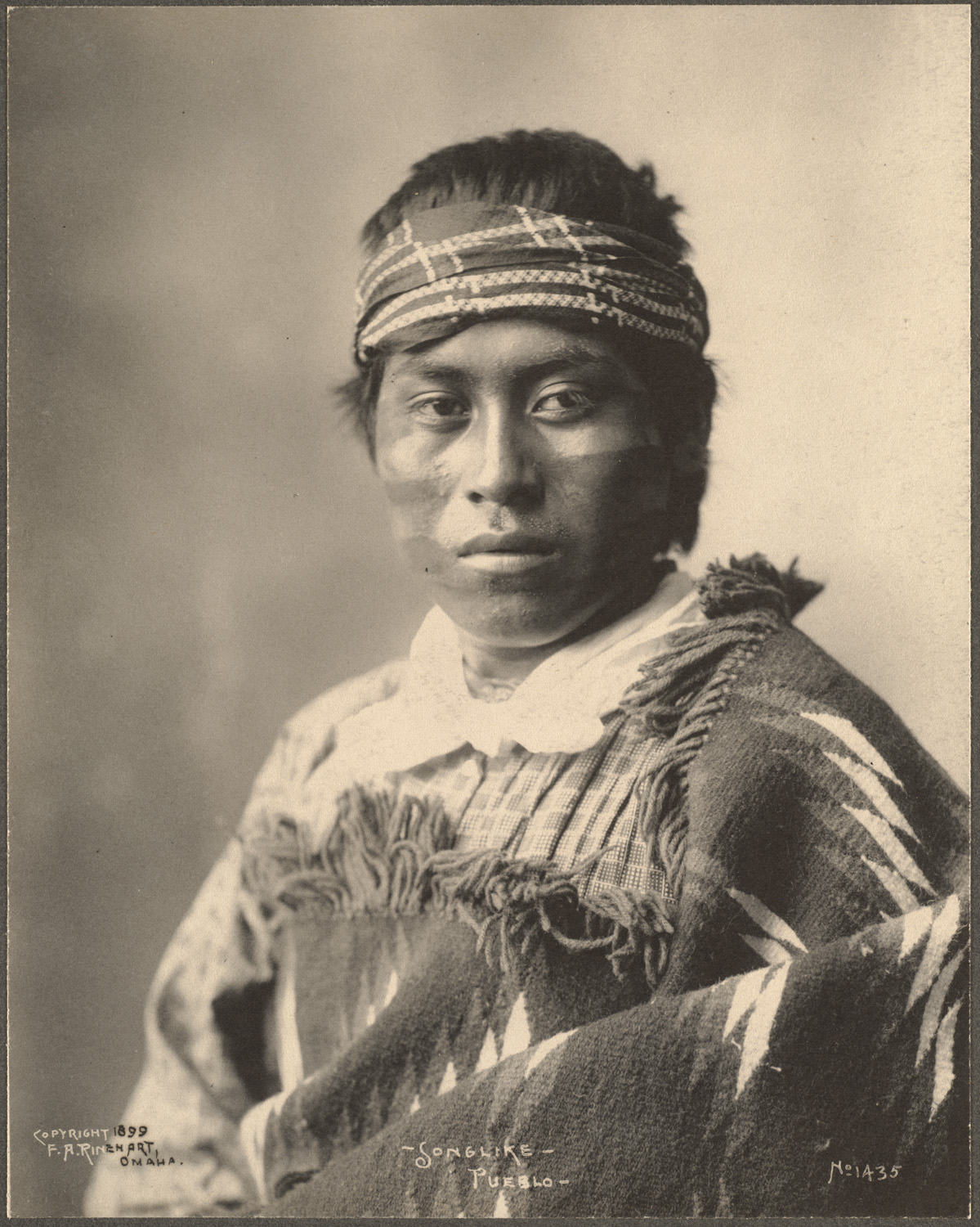 BPLDC no.: 09_06_000081 Rinehart no.: 1435 Title: Songlike, Pueblo Photographer: Rinehart, F. A. (Frank A.) Copyright date: 1899 Extent: 1 photographic print : platinum Genre: Platinum prints; Portrait photographs Subject: Indians of North America; Pueblo Indians; Trans-Mississippi and International Exposition (1898 : Omaha, Neb.) BPL Department: Print Department